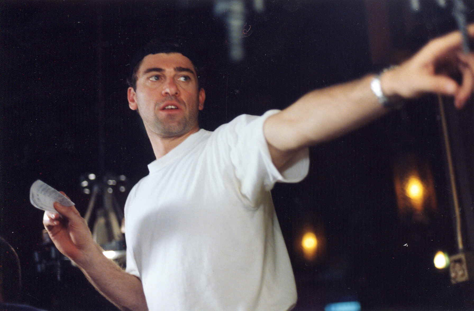 Directing on the set of ONE LAST RIDE